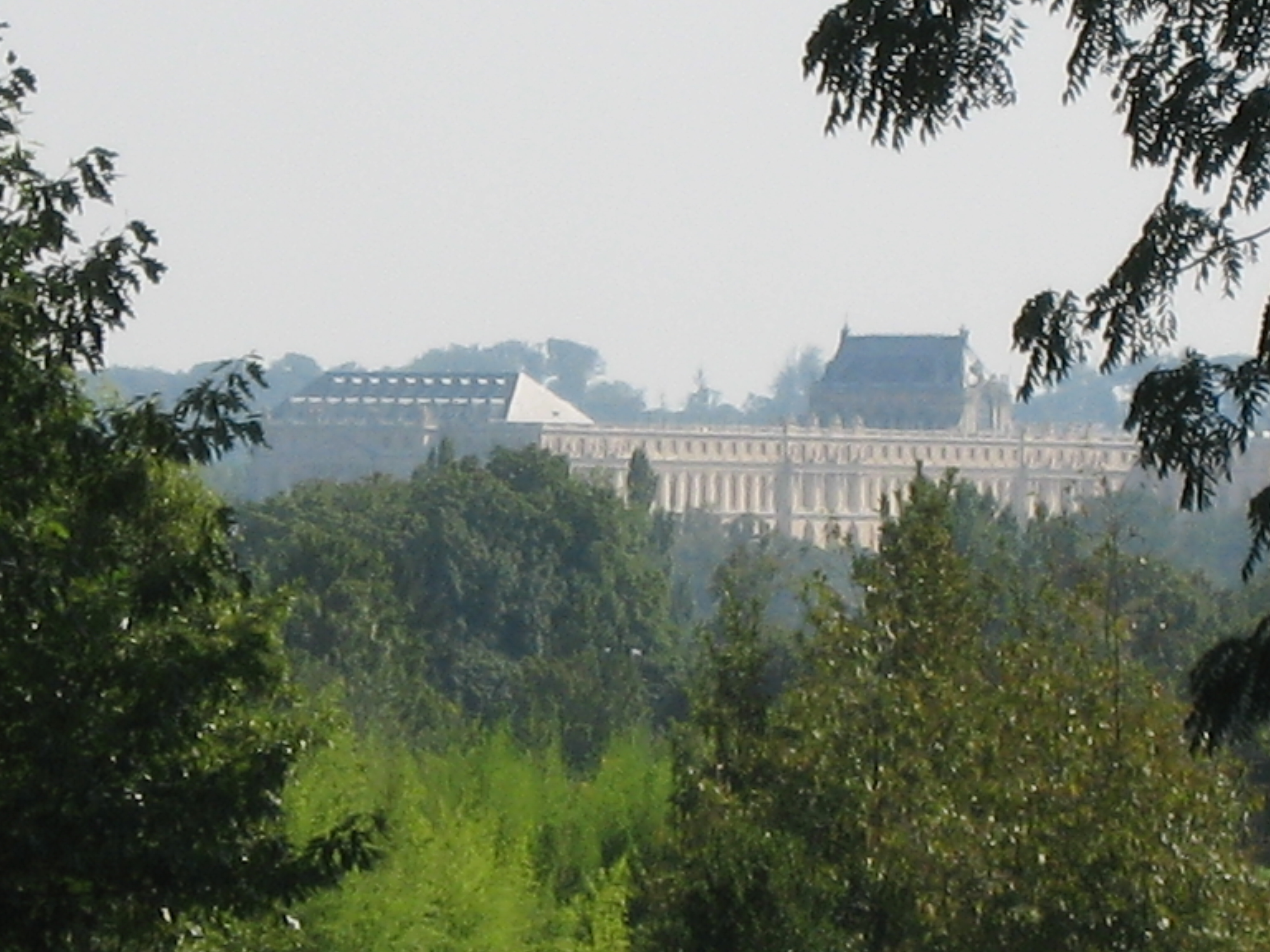 The Palace of Versailles as seen from the Arboretum de Chèvreloup in Rocquencourt